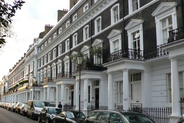 Onslow Square, London SW7 A smart address in London with smart houses. Looking SW along the NW side of the square